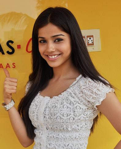 Indian actress Aparnaa Bajpai at Cinefundas studio.